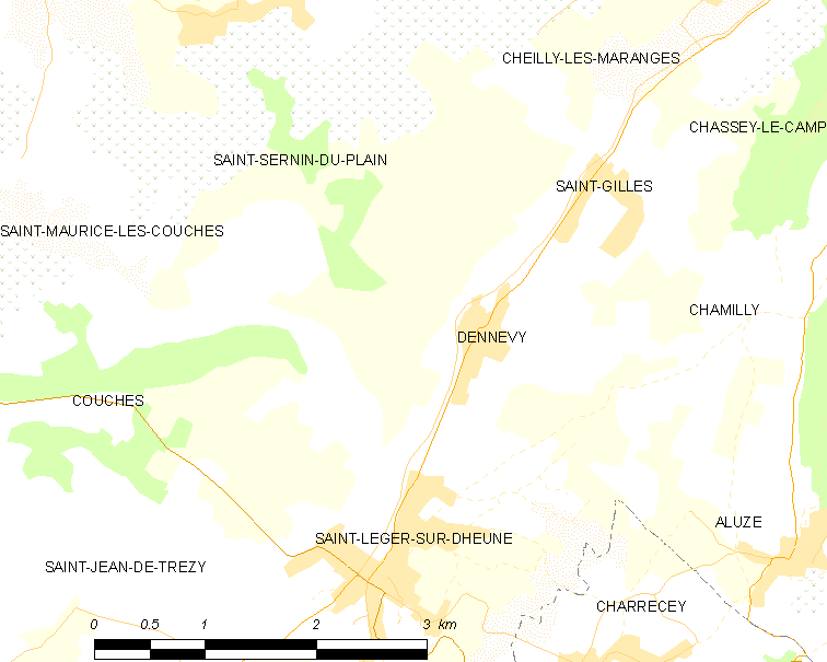 Map of French municipality